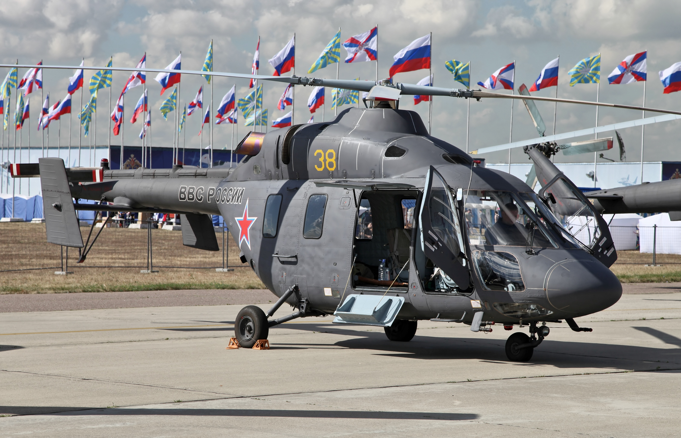 100th Anniversary of the Russian Air Force - Kazan Ansat.